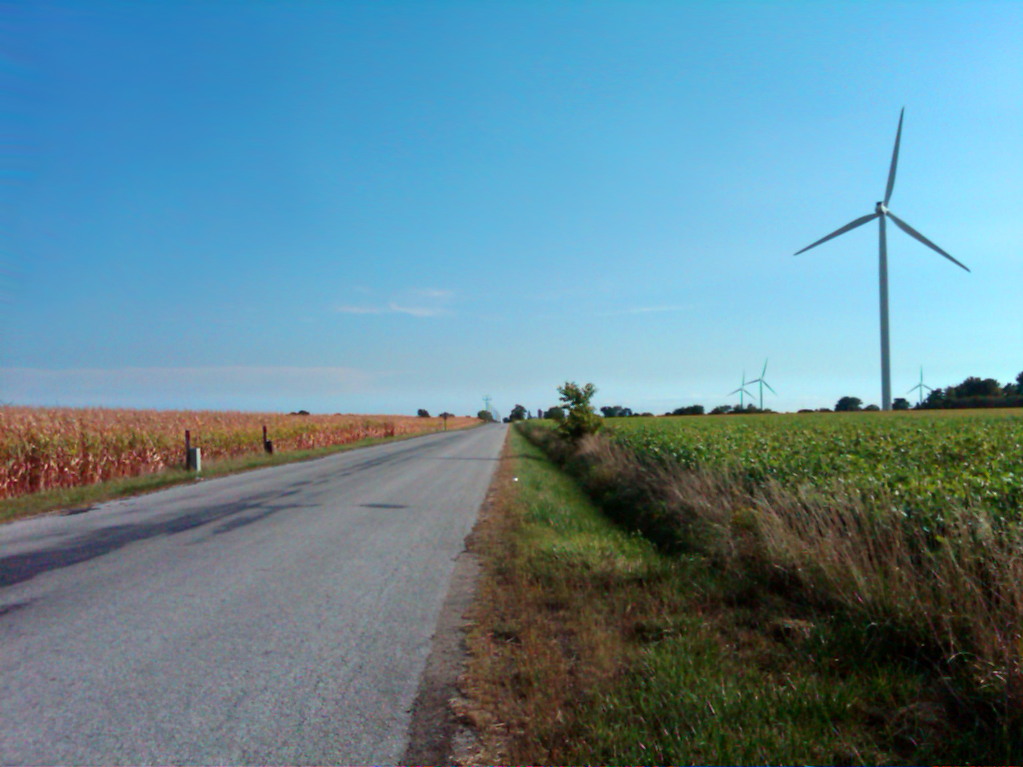 Windmills in Essex County, Ontario, Canada.